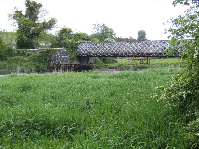 Old Boyne bridge, near Tullyallen